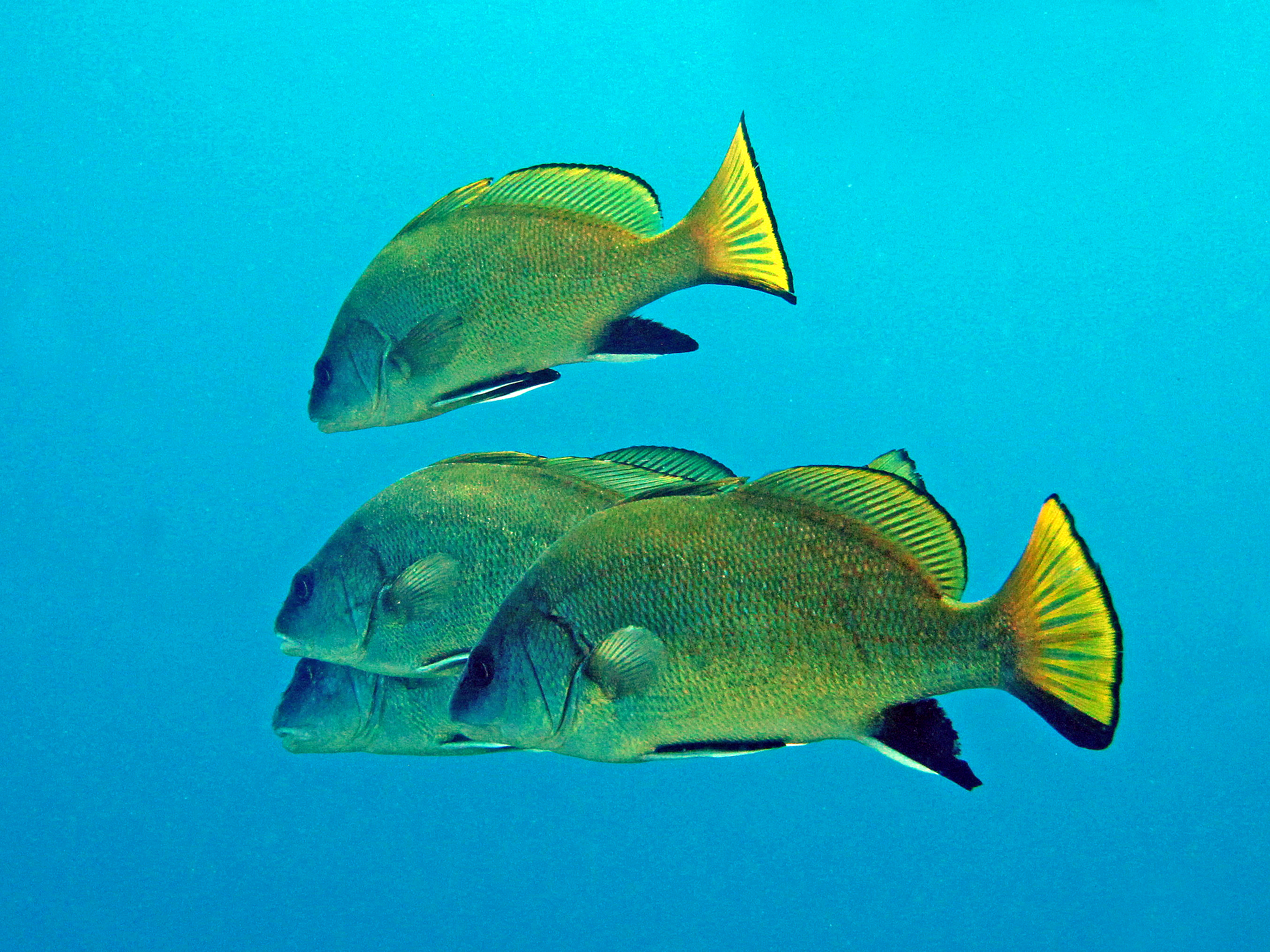 Sciaena umbrafrom Ligurian Sea, Portofino coast